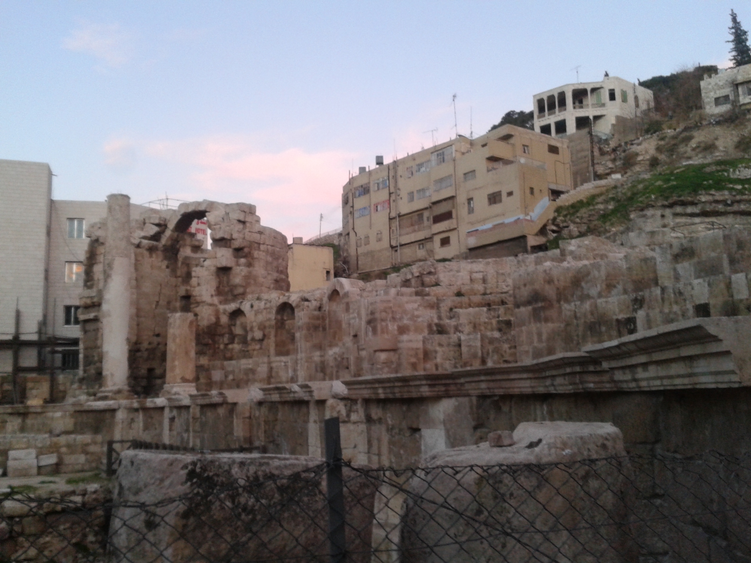 Roman Nymphaeum (Sabil El Houriyat) in Amman, Jordan.